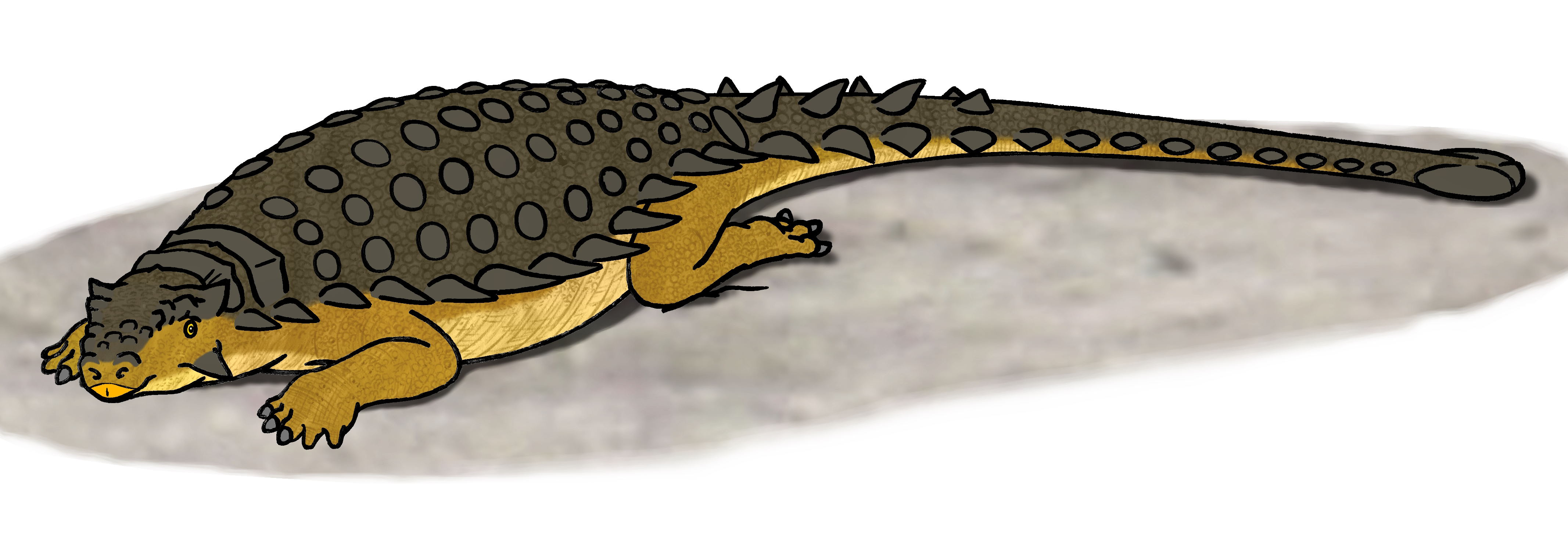 Reconstruction of Pinacosaurus, an ankylosaurian dinosaur from Asia of the late cretaceous period.